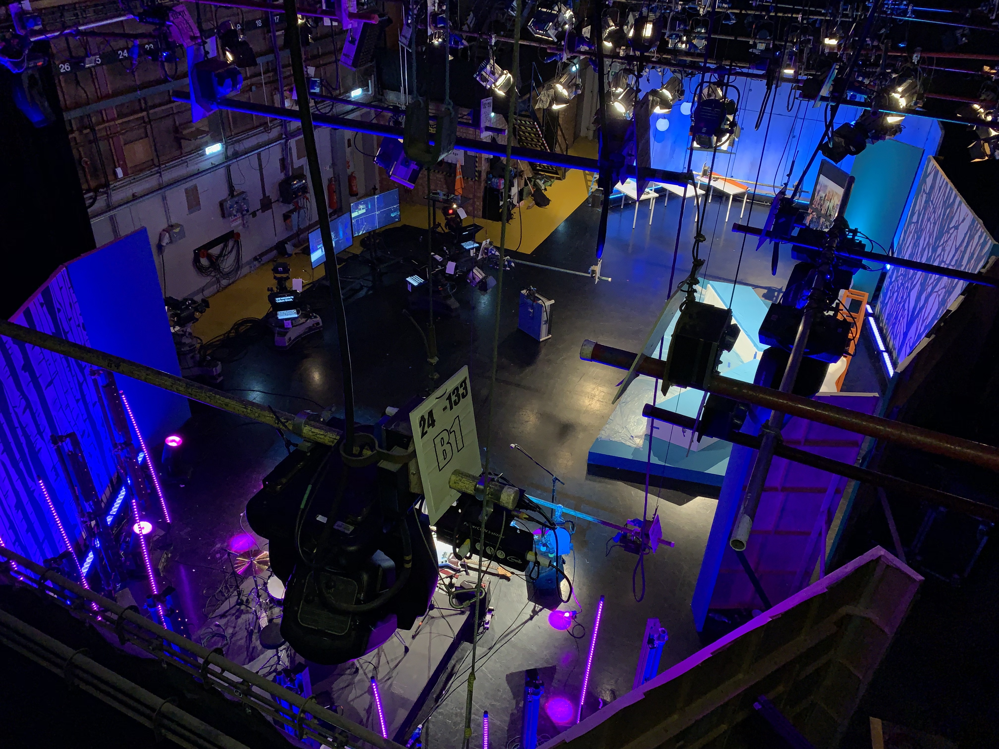 A television production in the National Film and Television School TV Studio, taken in 2018.